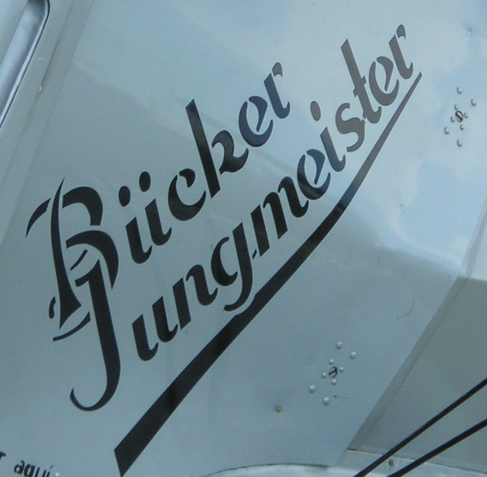 Bücker Bü 133 Jungmeister.